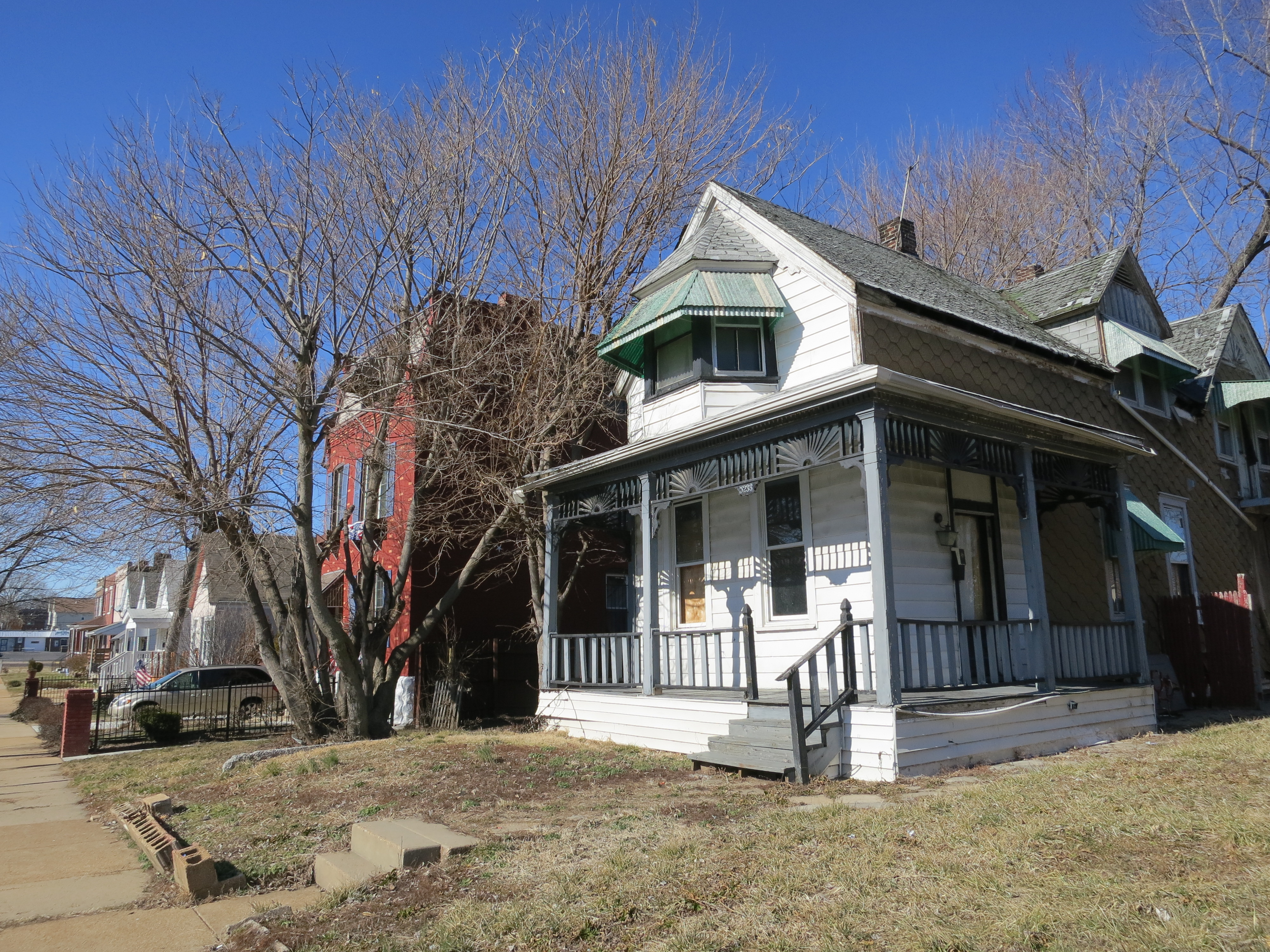 Cool Frame House on Theodosia Ave